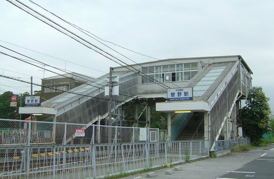 Sugano Station, Ichikawa city, Chiba, Japan